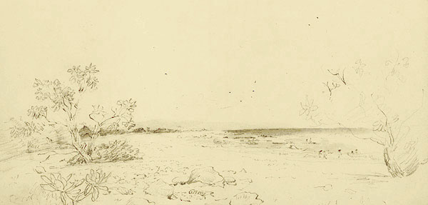 Pencil sketch of Wake Island created during the United States Exploring Expedition, 1838-1842